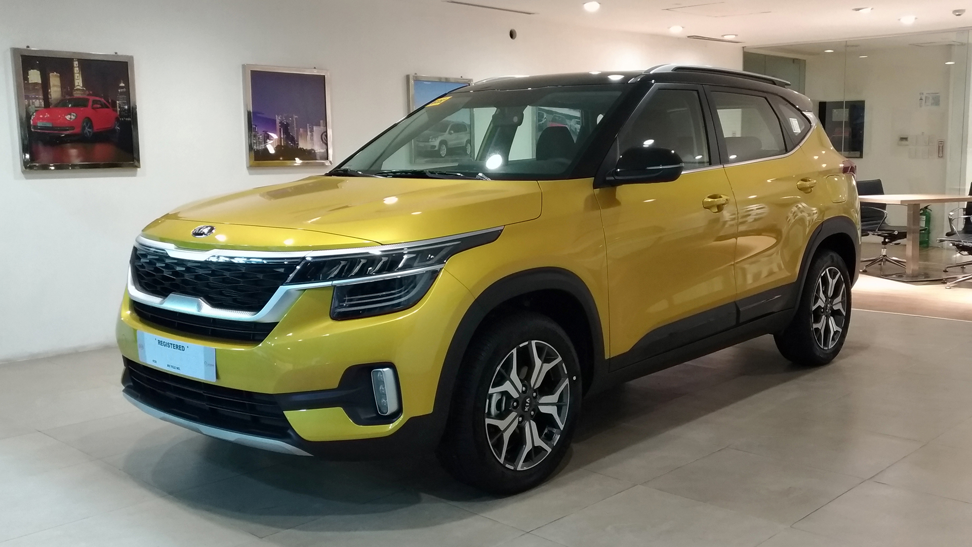 2020 Kia Seltos SX. Photographed at Volkswagen Global City, Bonifacio Global City, Taguig, Philippines.